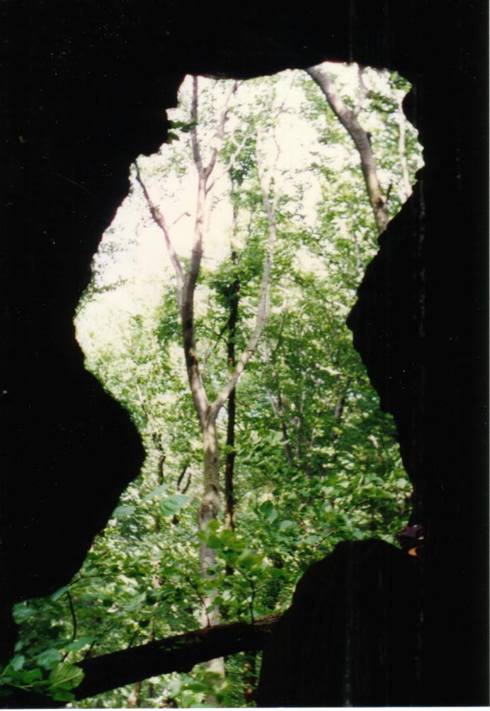 Entrance of Szenteltvízmedencés Cave, Visegrád Mountains, Dobogókő